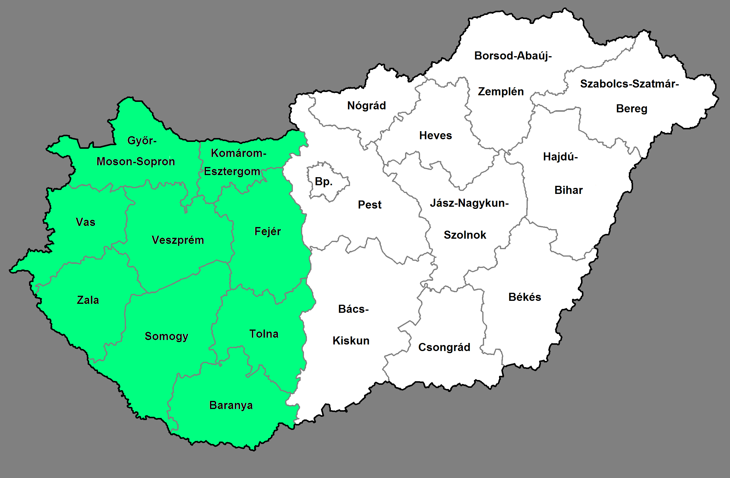 Hungary - NUTS1 - Groups of Regions - Transdanubio (Dunántúl)